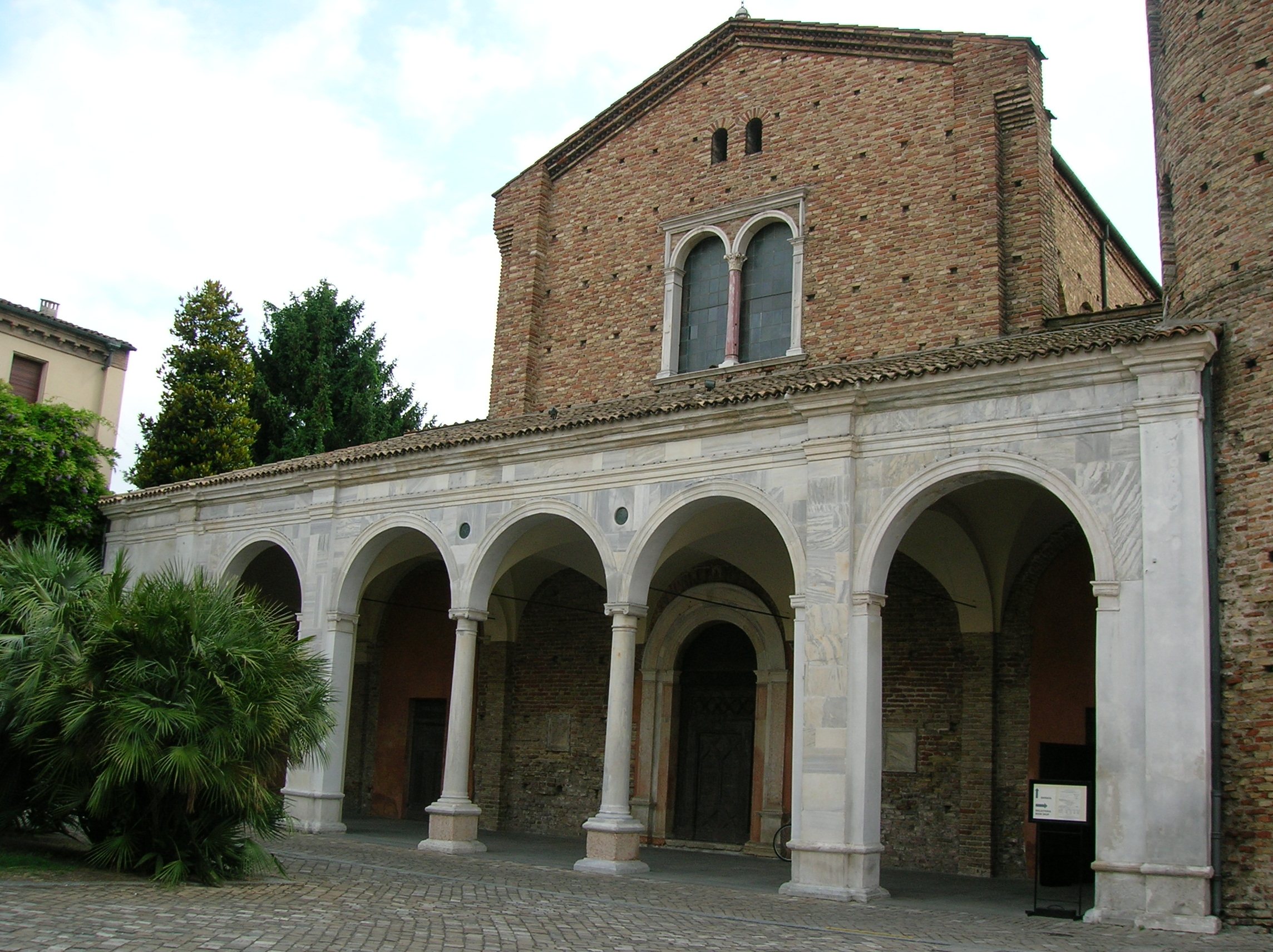 Facade of the Basilica of Sant'Apollinare Nuovo in Ravenna, Italy.